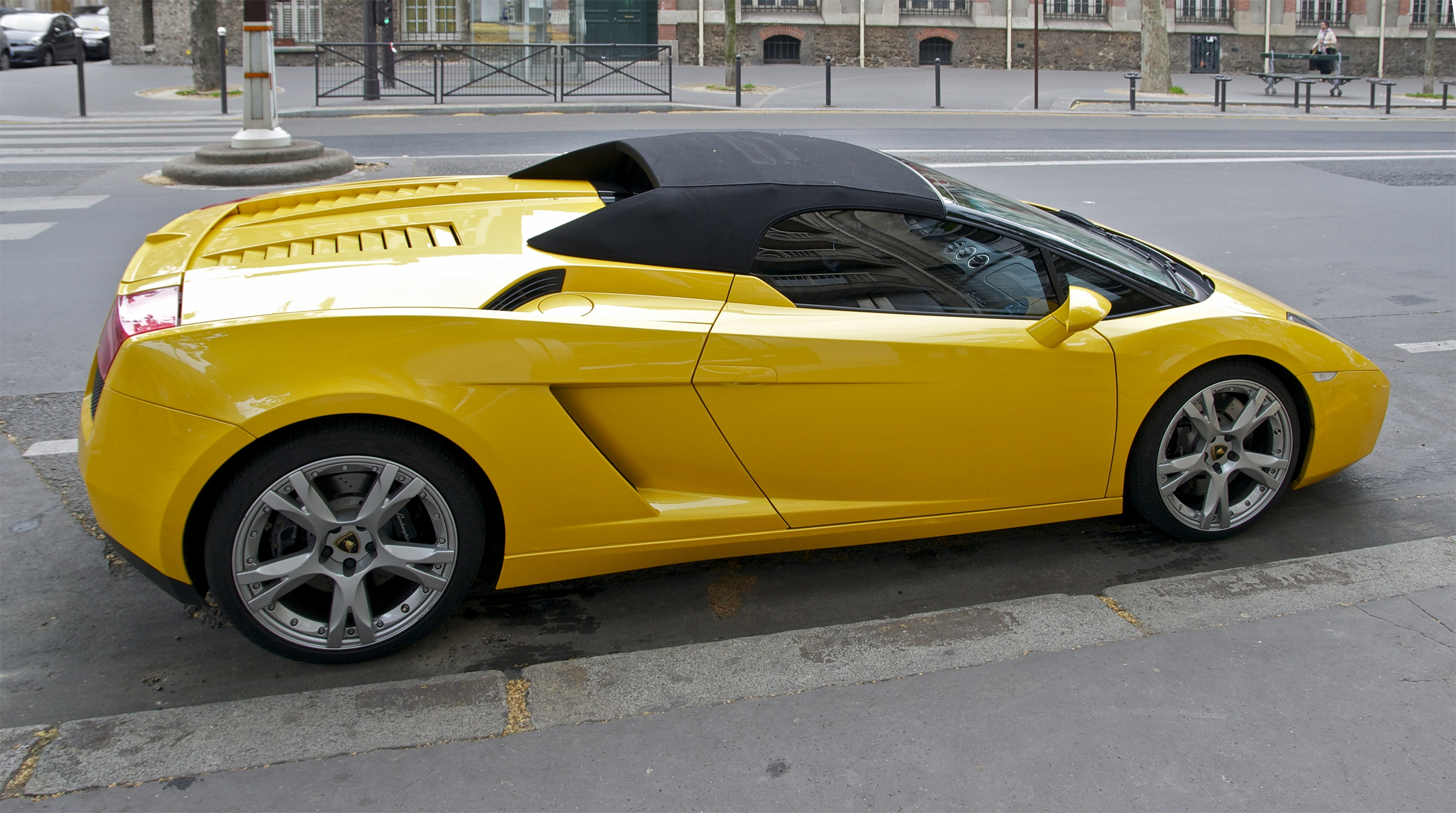 Yellow Lamborghini Gallardo Spyder, Paris.